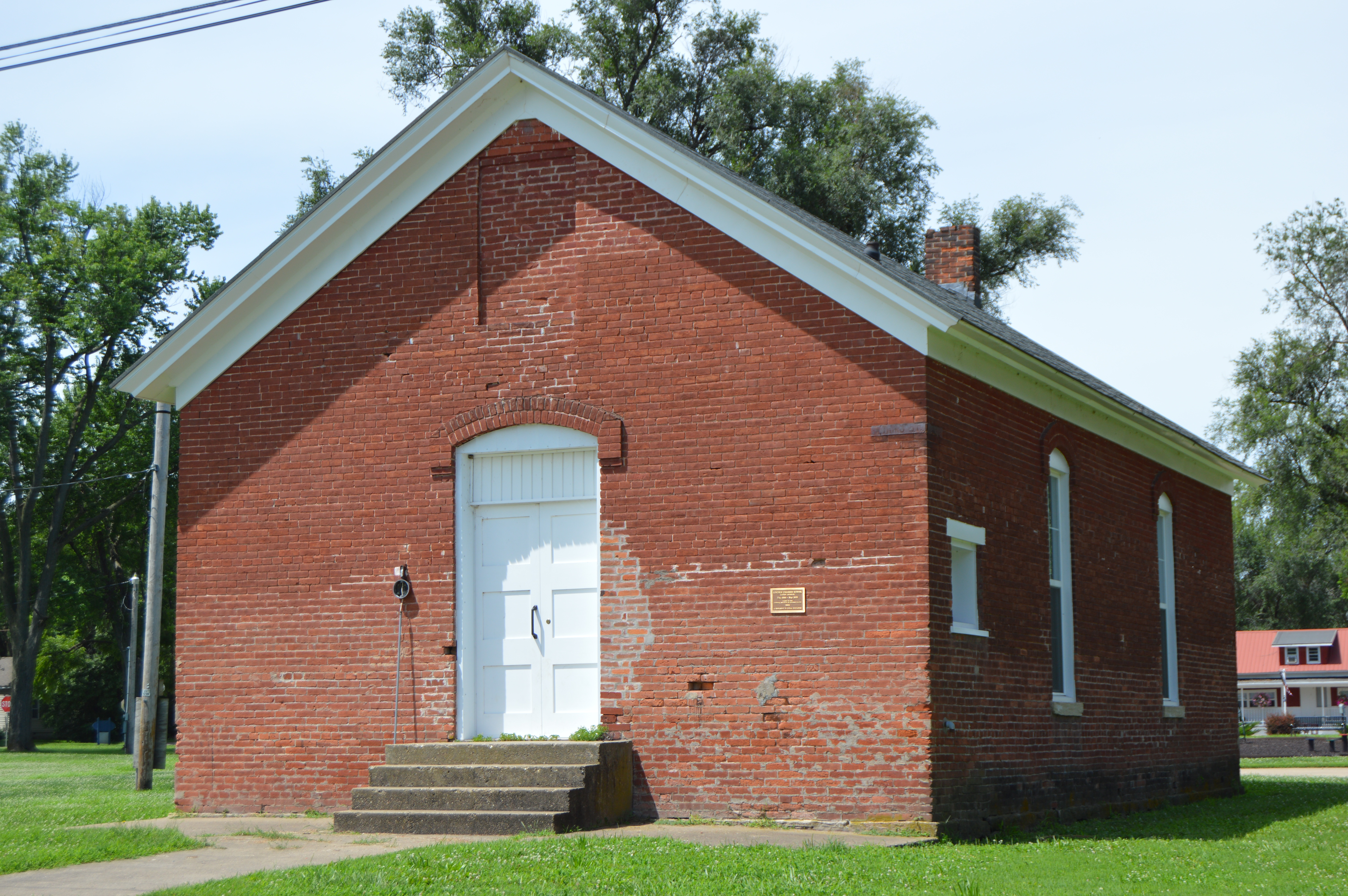 Front and northern side of the Lincoln School, located on the southwestern corner of the junction of Third and Green Streets in Canton, Missouri, United States. Built in 1880, it is listed on the National Register of Historic Places.